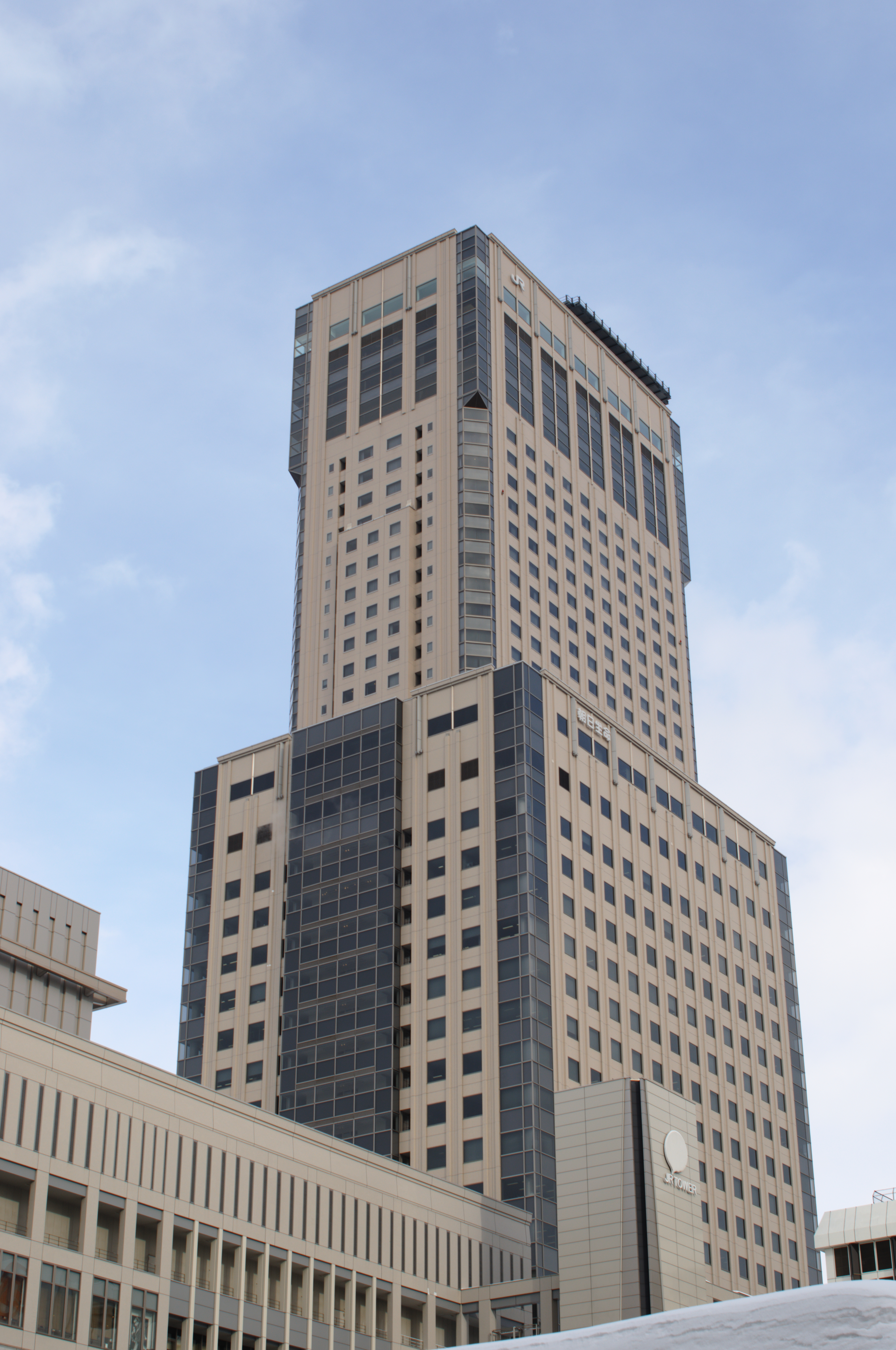 JR Tower